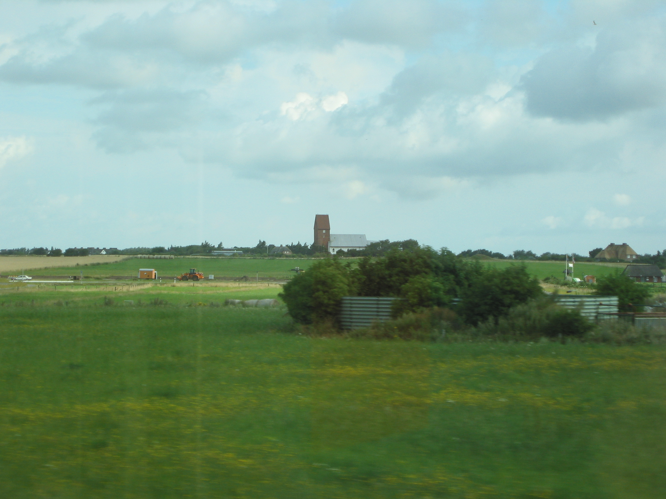 Church of Keitum, Sylt, Germany, August 2003.